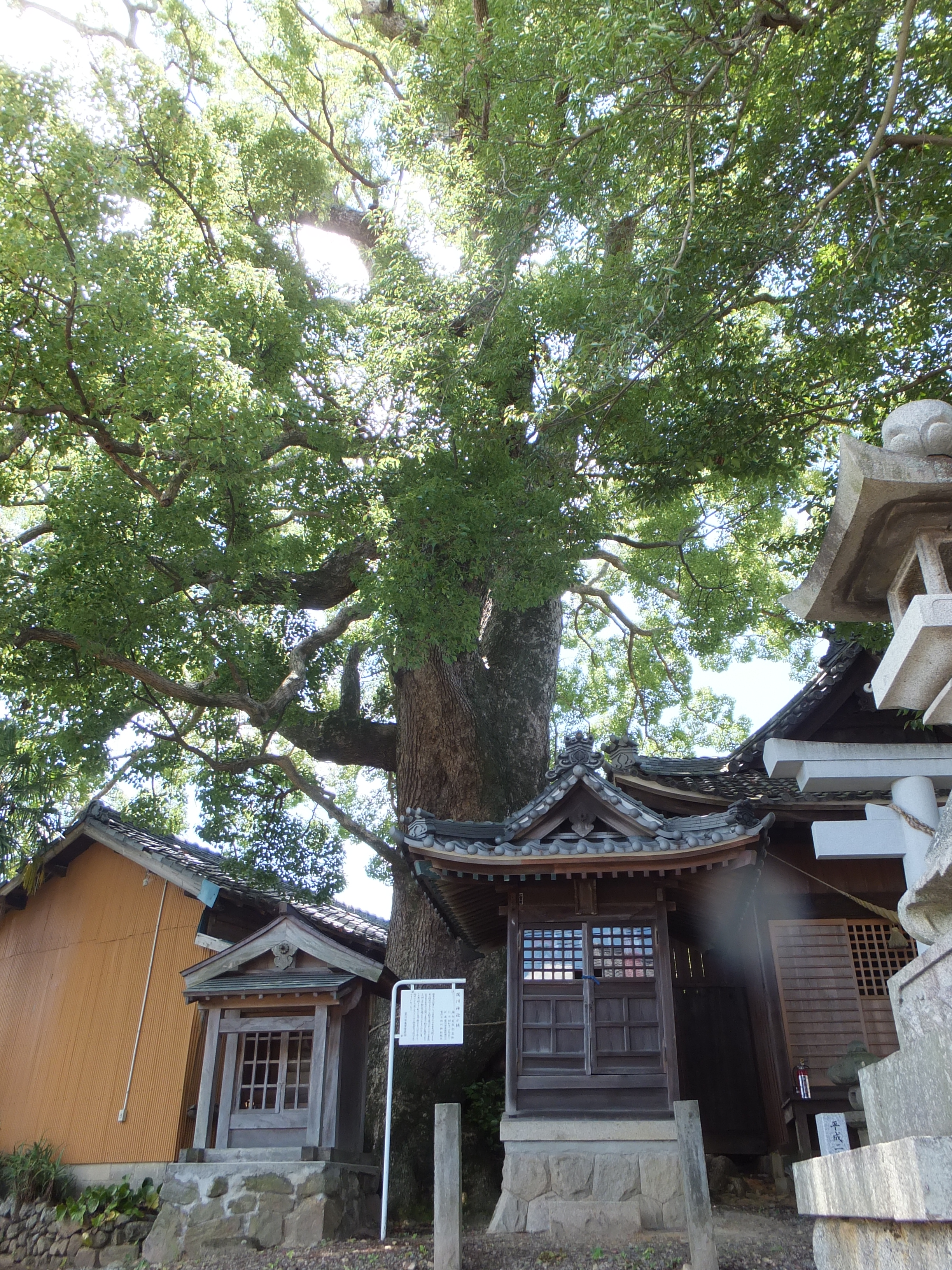 Sekigawa Jinja (関川神社), at Sekigawa, Akasaka, Toyokawa, Aichi, Japan